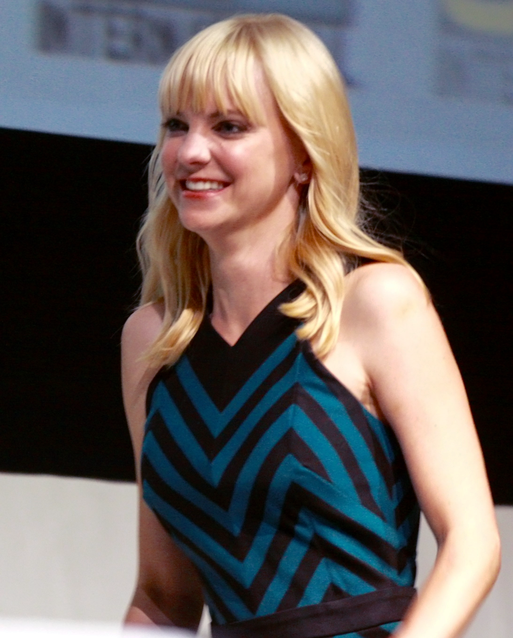 Anna Faris, 2013